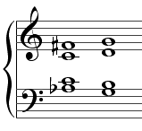 Italian sixth moving to V, generated on Sibelius.